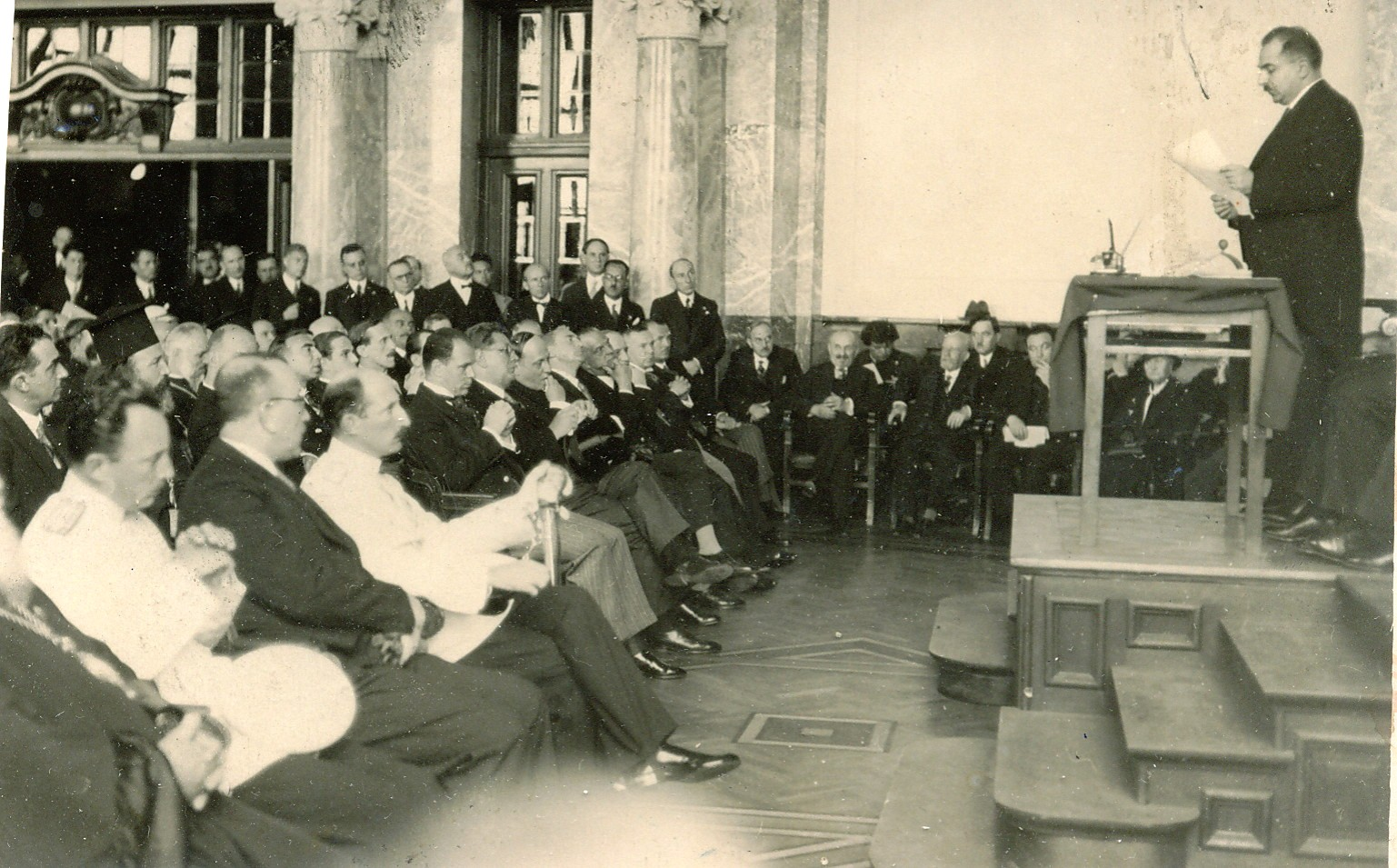 Tsar Boris III, the Prime-minister of Bulgaria Bogdan Filov and Prince Cyril during the opening session of the IV International Congress of Byzantine Studies in the Aula of the University of Sofia, 09. 09. 1934